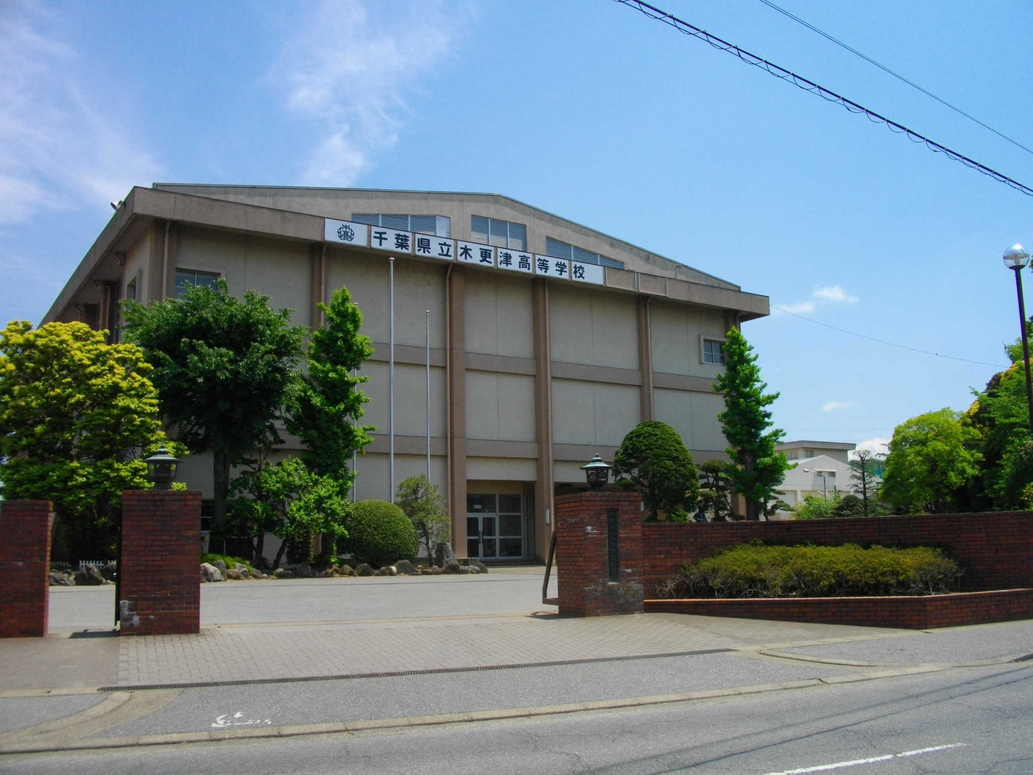 Kisarazu High School